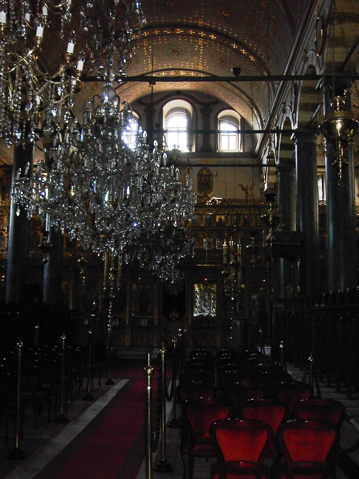 Church of St George, Istanbul